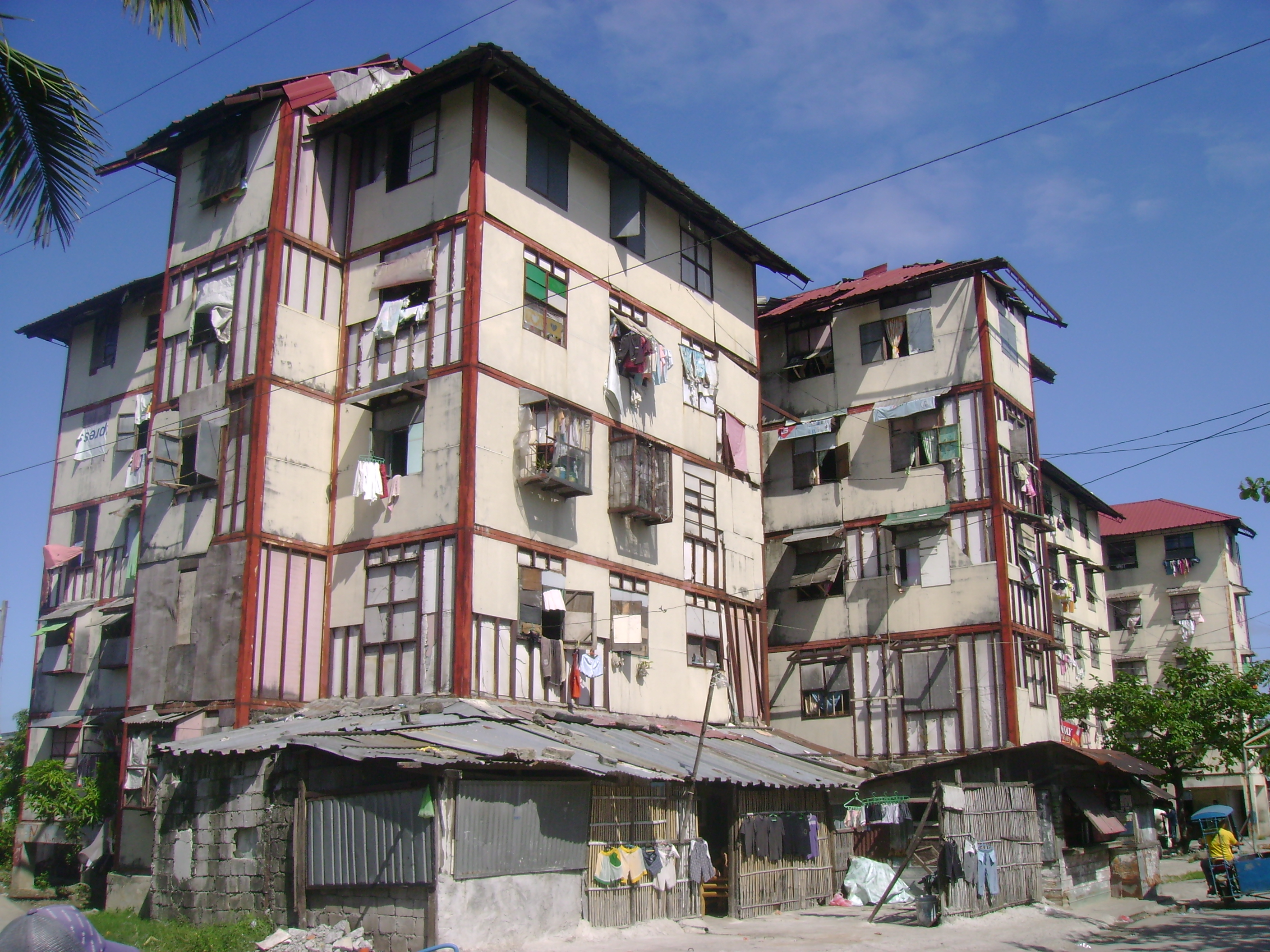 Resettlement Housing in San Lorenzo Ruiz, Taytay, Rizal